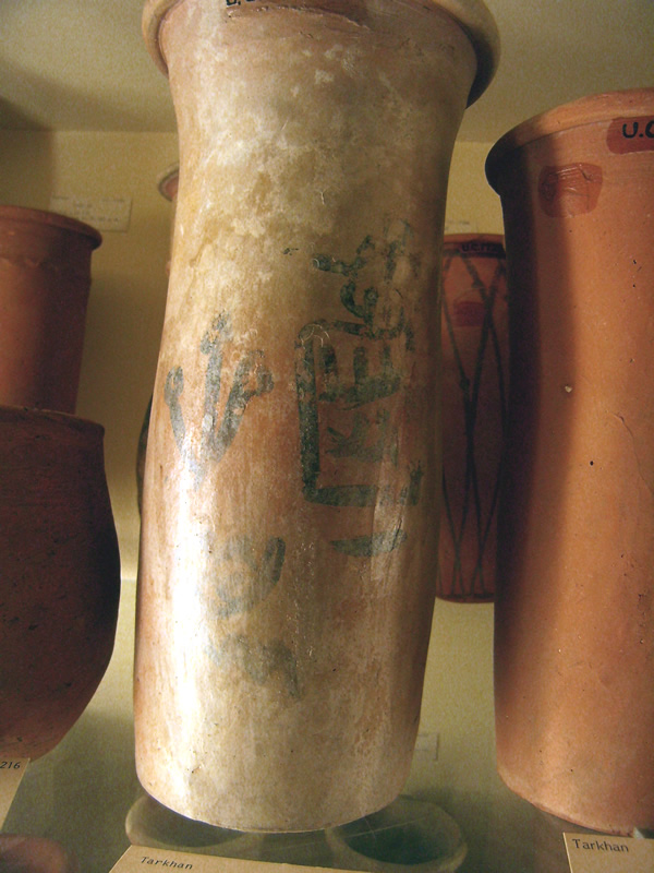 Vessel found at Tarkhan (tomb 261) with the name of the Egyptian king Ka; Petrie Museum, London (UC 16072